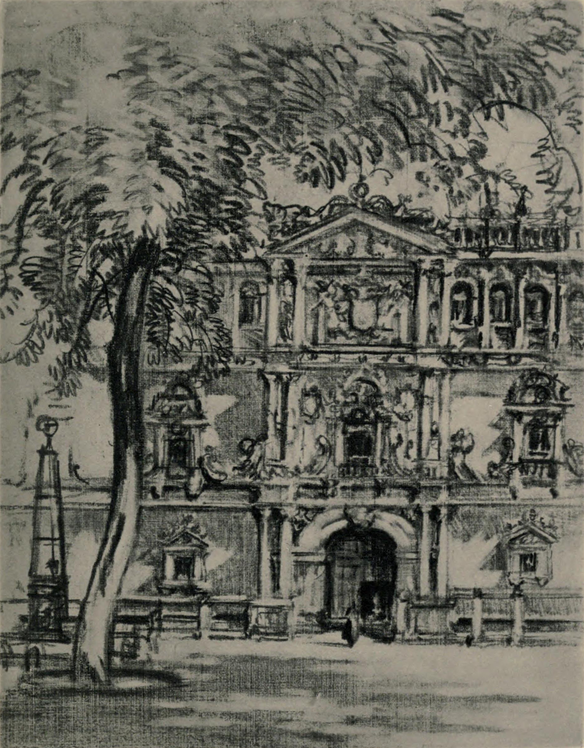 "The University, Alcalá de Henares" (Community of Madrid - Spain). Joseph Pennell (1903).